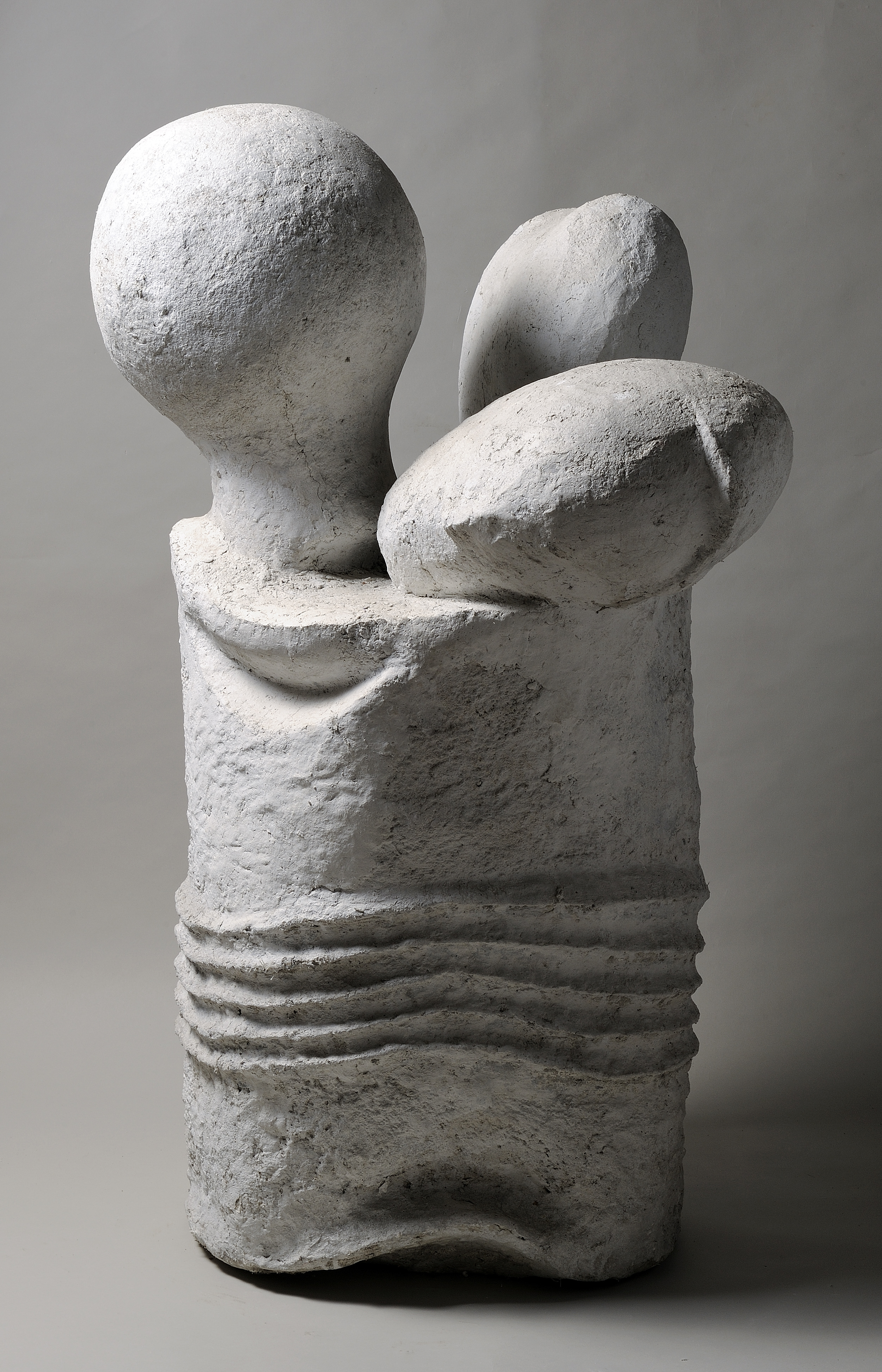 Sculpture, Three tired heads on a barrel, metal and asbesto-cement (1966), size 106 cm